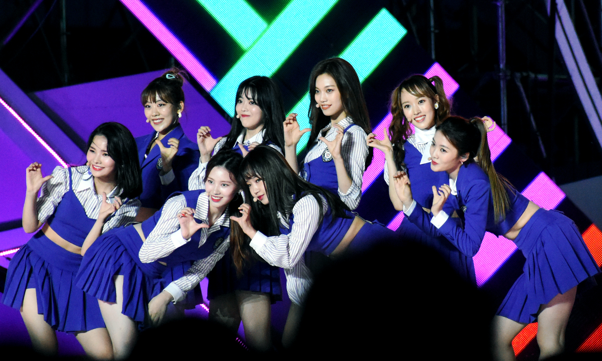 Weki Meki at the 2018 Incheon Airport Sky Festival on September 2, 2018.